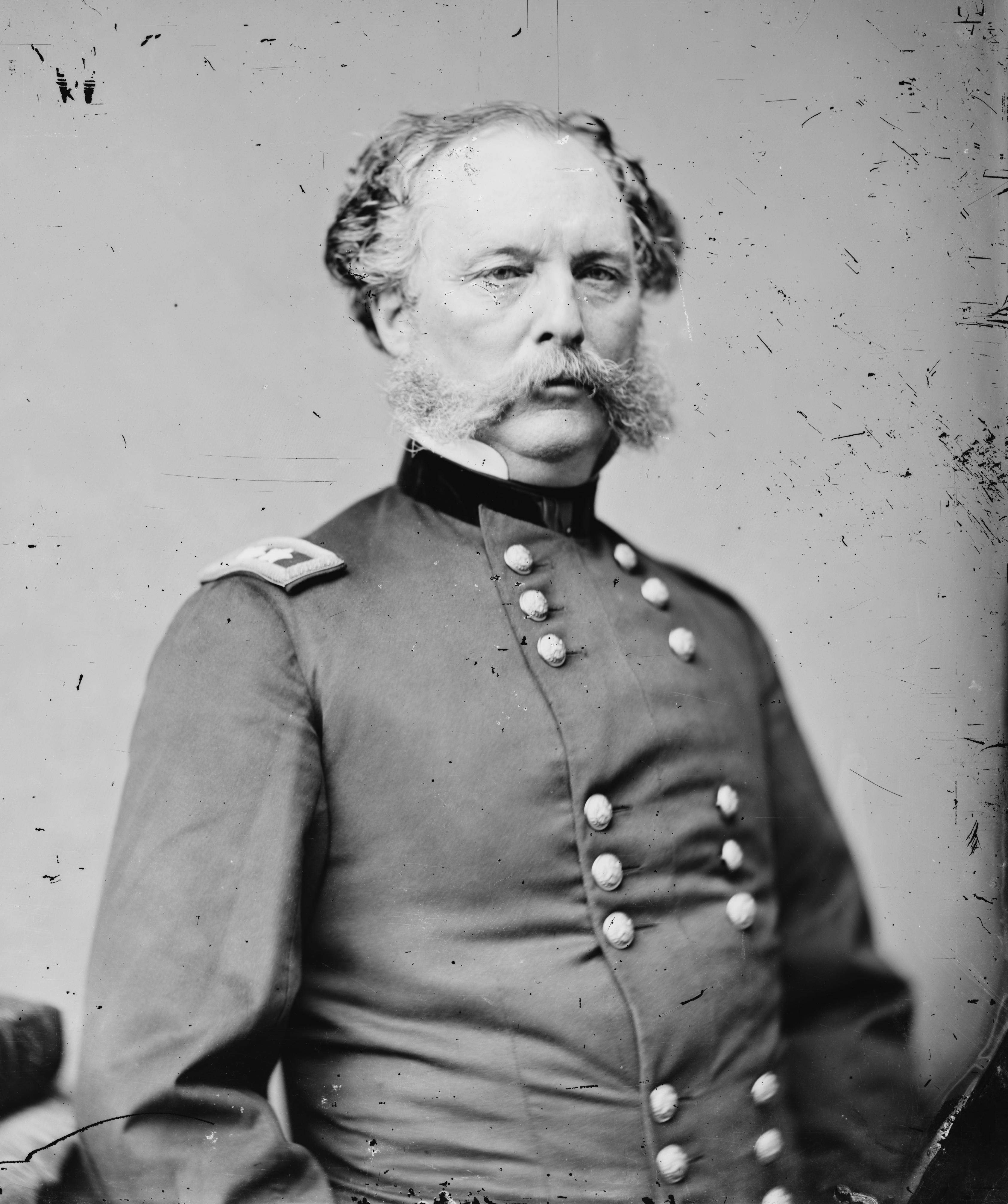 Randolph B. Marcy. Library of Congress description: "Gen. R.B. Marcy, U.S.A."